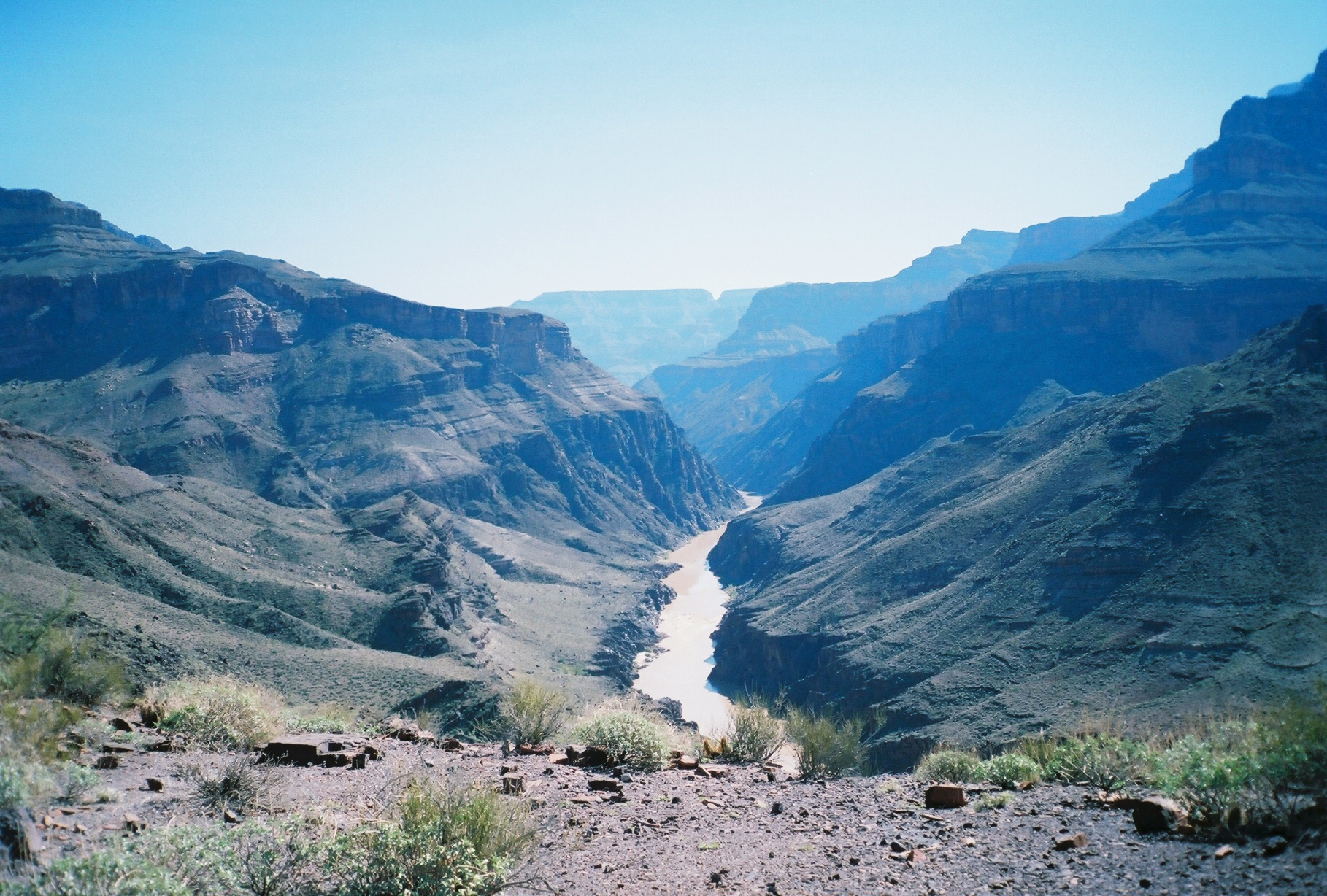 The Colorado River at Granite Gorge, Shinumo Creek, seen from the near-terminus of the North Bass Trail.